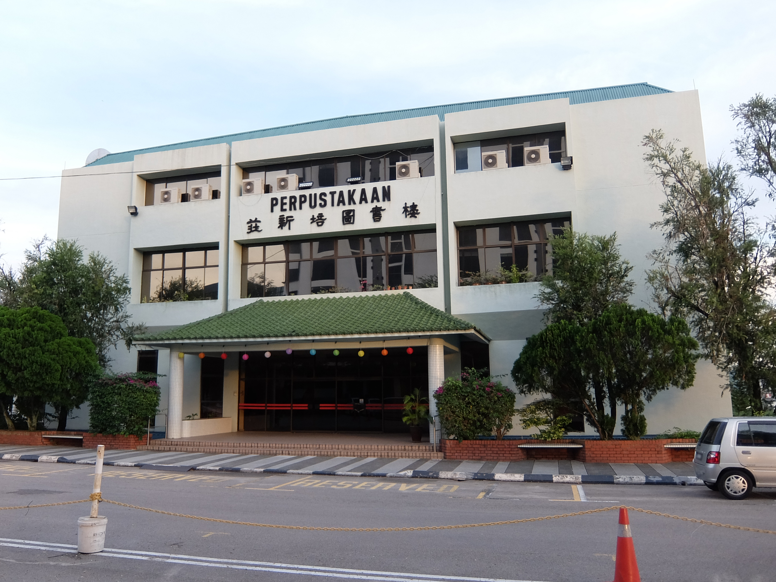 Foon Yew High School Library, Foon Yew High School, Stulang Laut, Johor Bahru, Johor, Malaysia